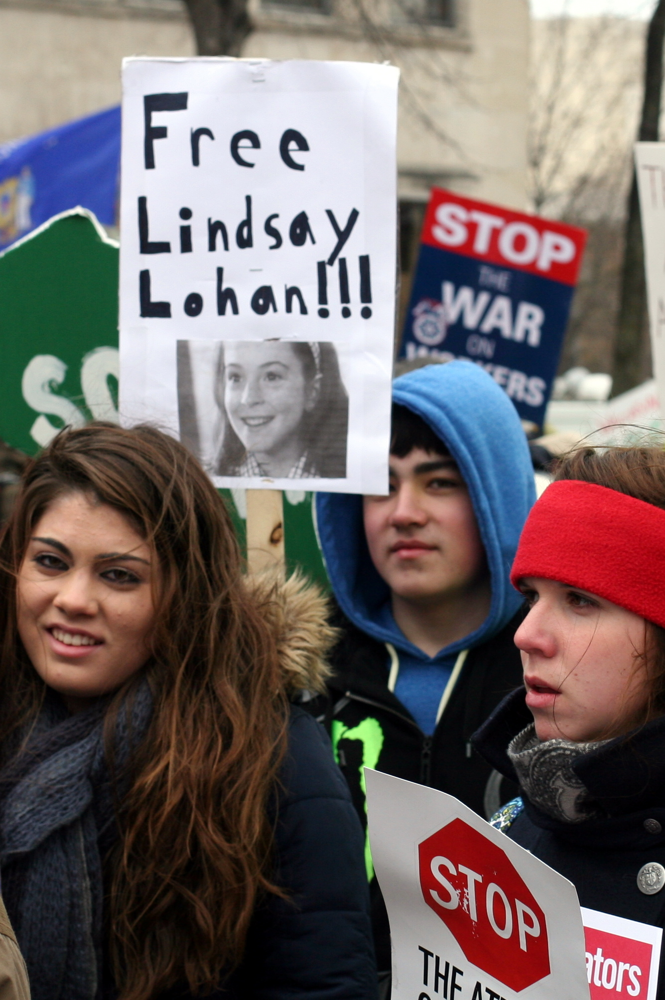 Free Lindsay Lohan!!! Madison protest rally signs signage protesters